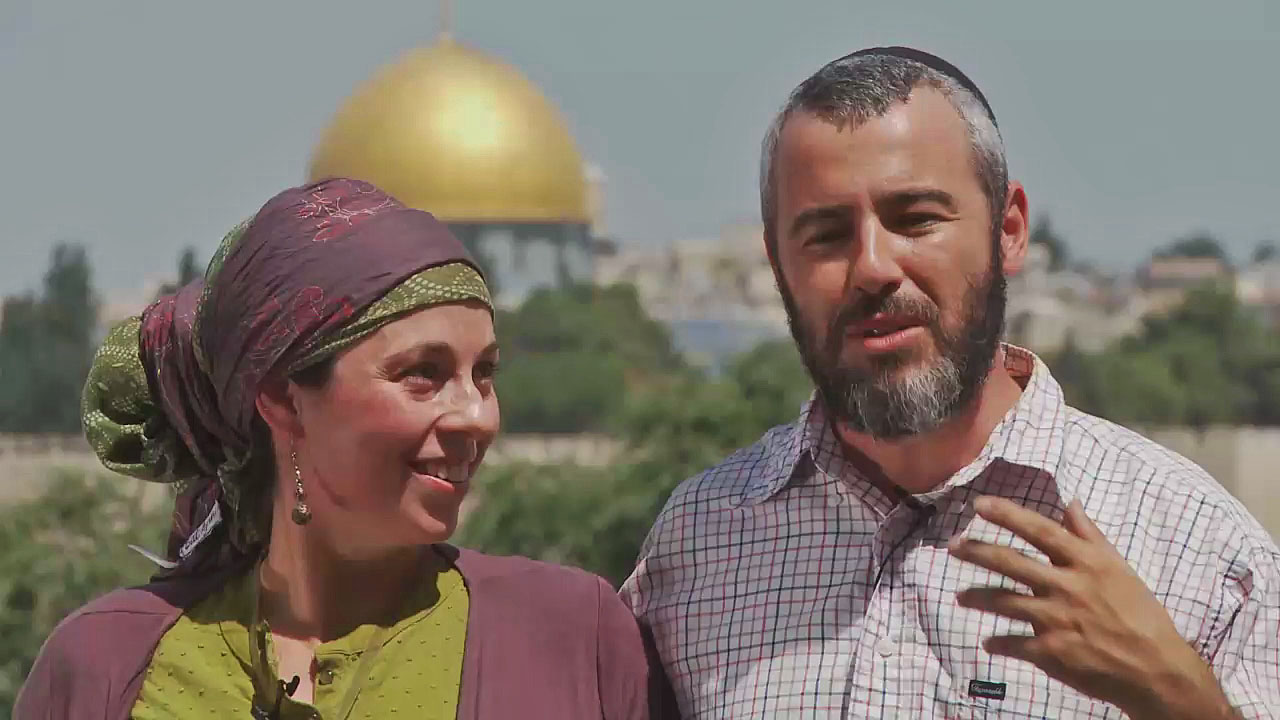 Yishai and Malkah Fleisher on their porch in Jerusalem.